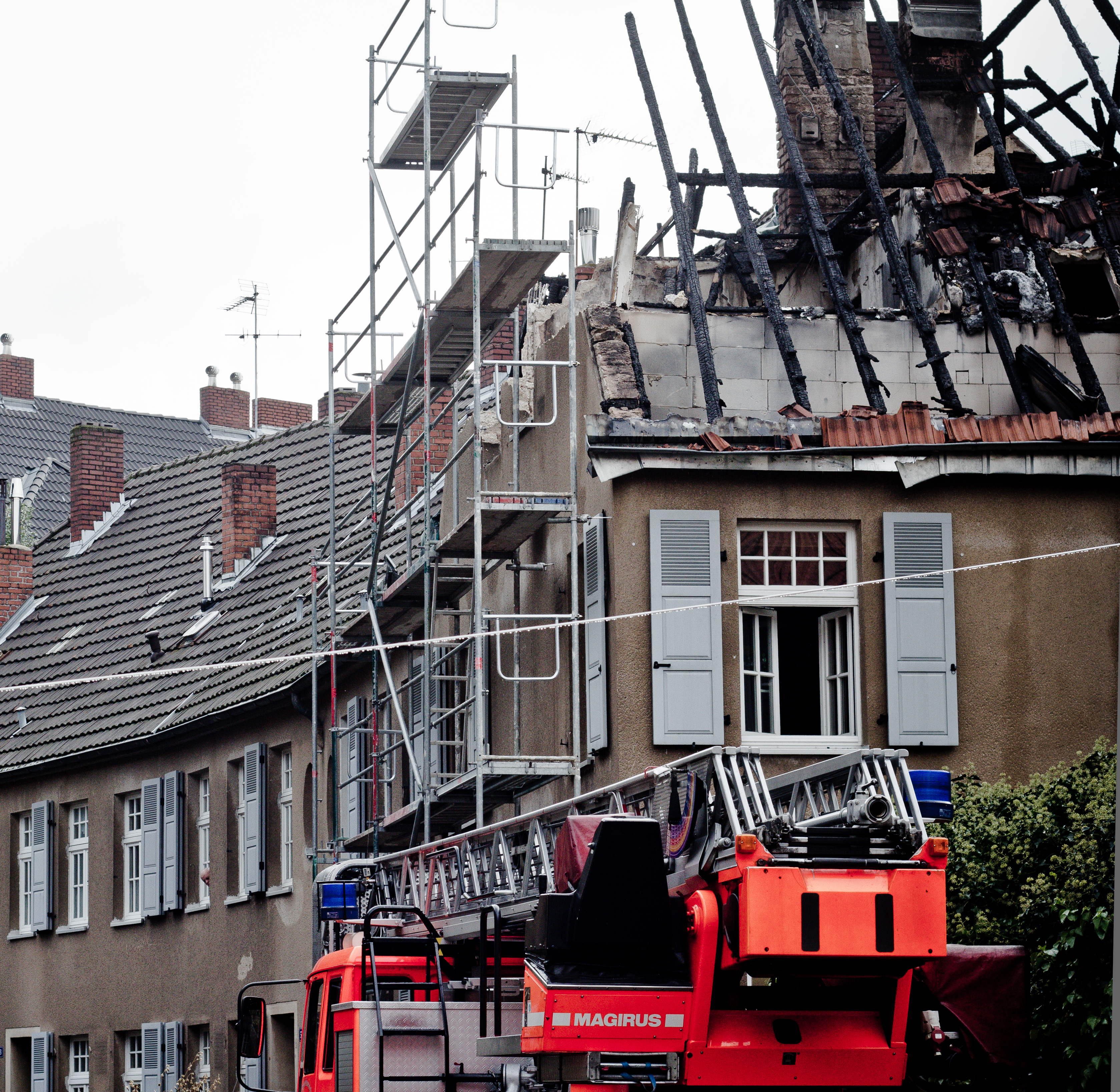 Protected buildings of historical workers settlement, built around 1912, burned down September 21, 2012.This is a photograph of an architectural monument.